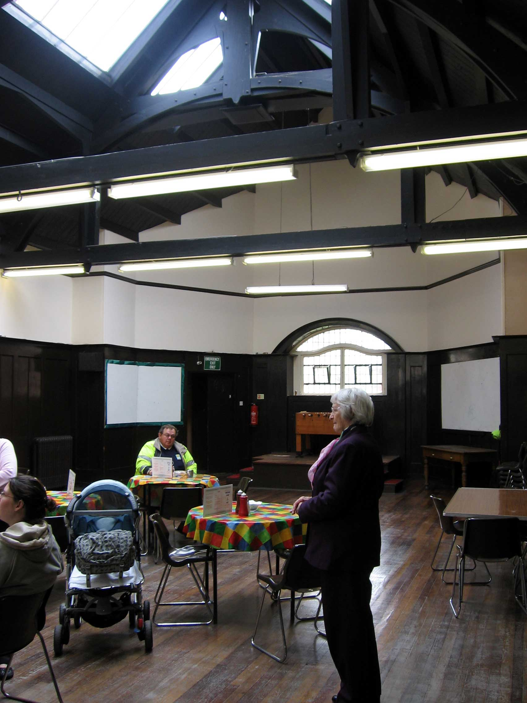 Ruchill Church Hall, Glasgow designed by Charles Rennie Mackintosh.